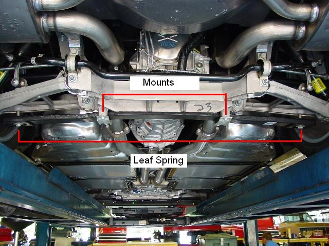 Illustration of the location of a Corvette leaf spring and its mounts